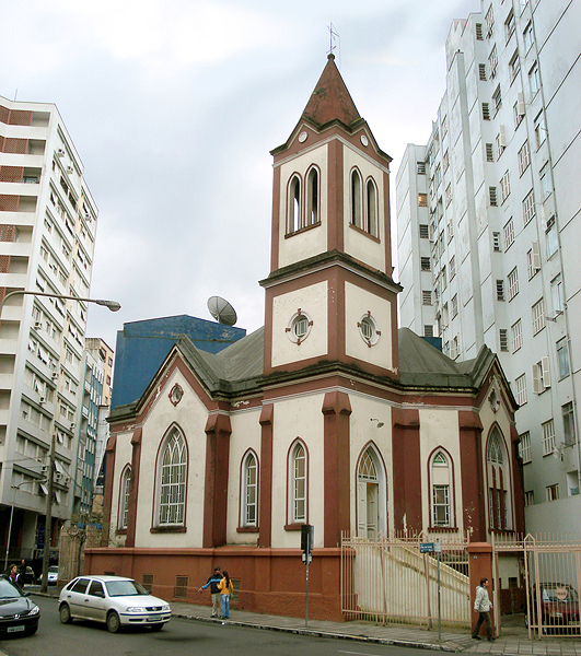 Central Methodist Church, in Porto Alegre, Brazil